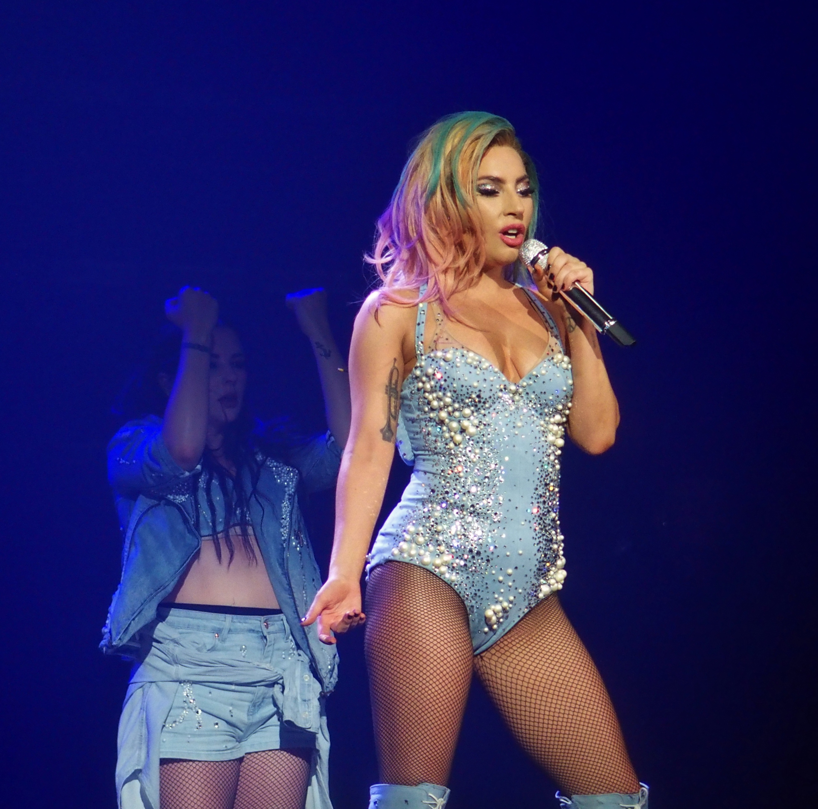 Lady Gaga performing on the Joanne World Tour